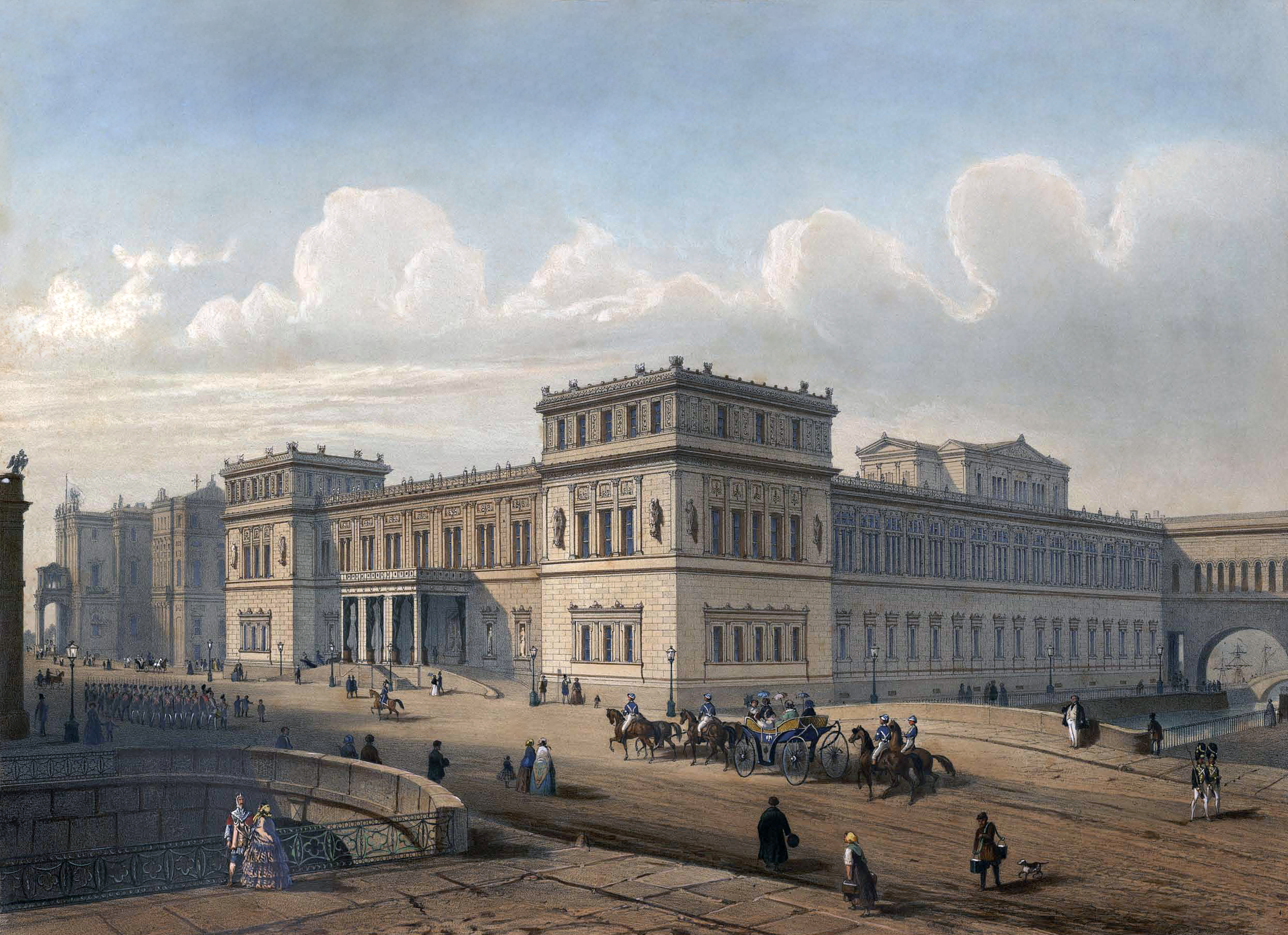 The new Hermitage Building in St. Petersburg in the 19th century, lithograph after a drawing by Charlemagne